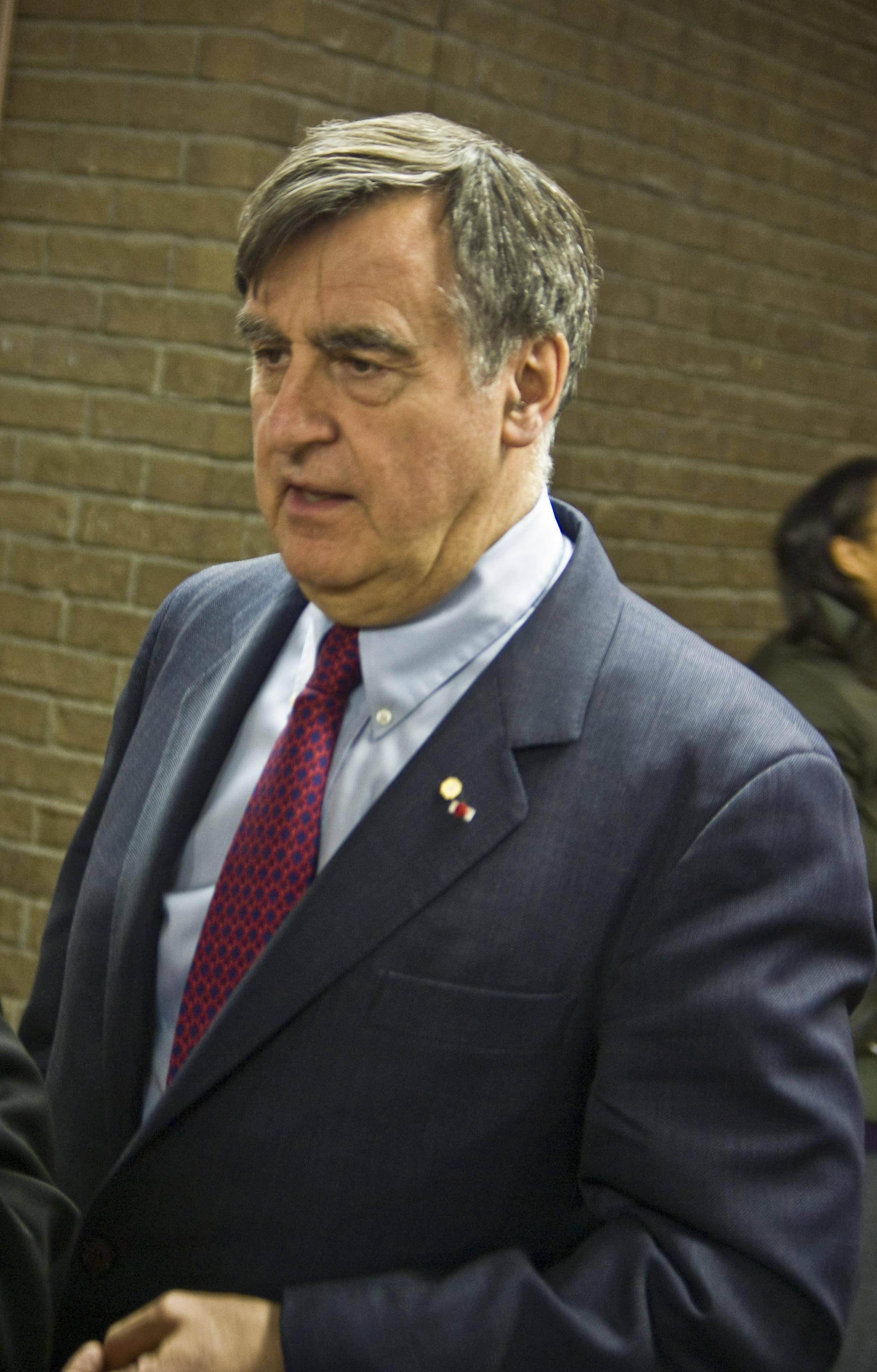 Lucien Bouchard at Université de Montréal